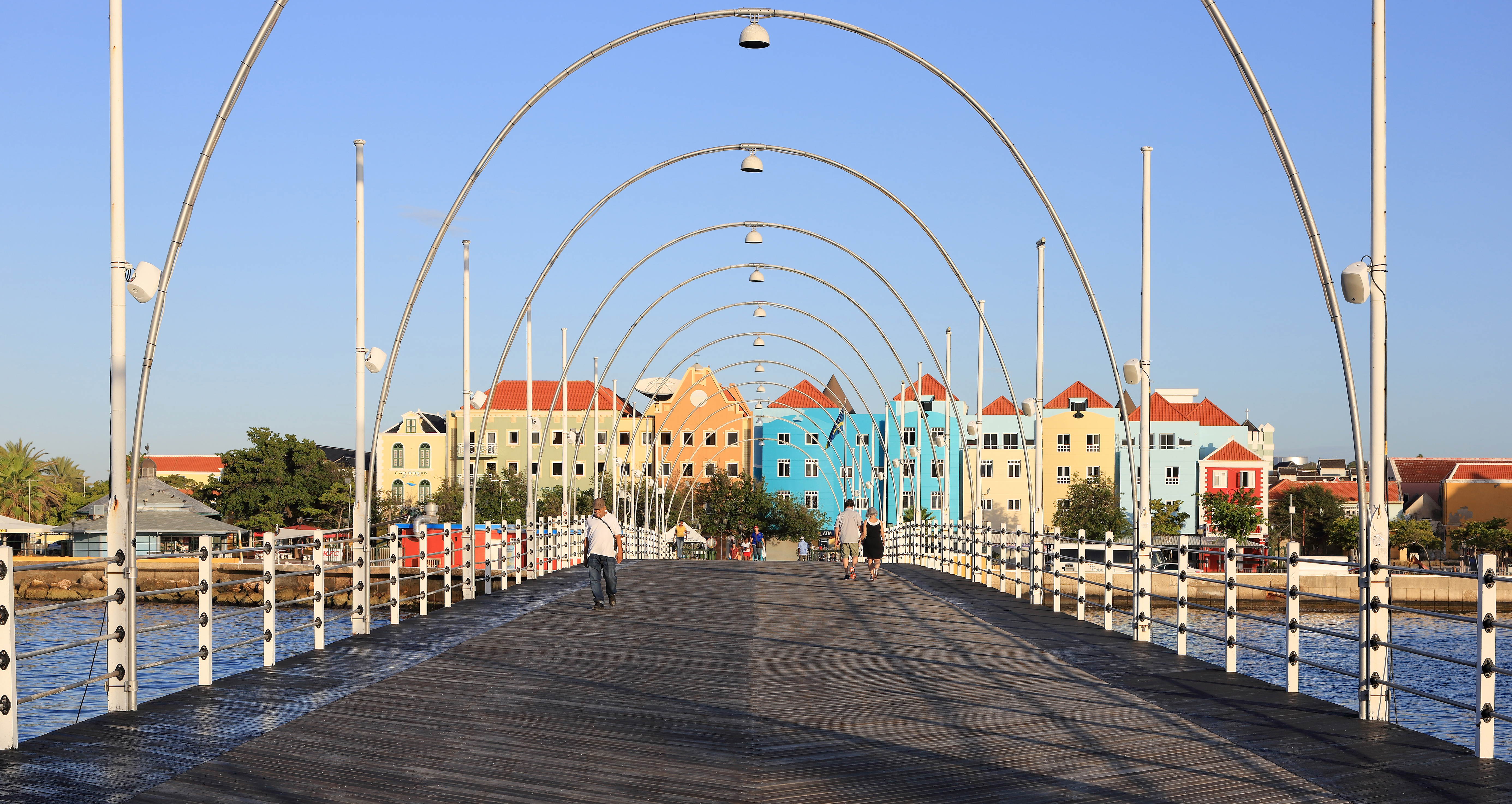 View of the district of Otrobanda, Willemstad, Curaçao, from Queen Emma Bridge, a pontoon bridge across St. Anna Bay. It connects the Punda and Otrobanda quarters of the island's capital. The bridge is hinged and opens regularly to enable the passage of oceangoing vessels.